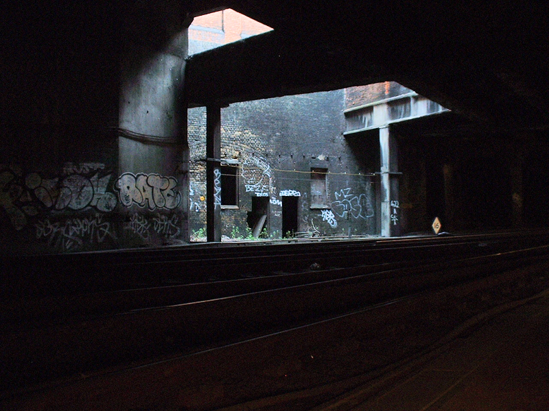 Snow Hill Tunnel today, seen from Smithfield Sidings. The old signal cabin was located just out of frame on the right.